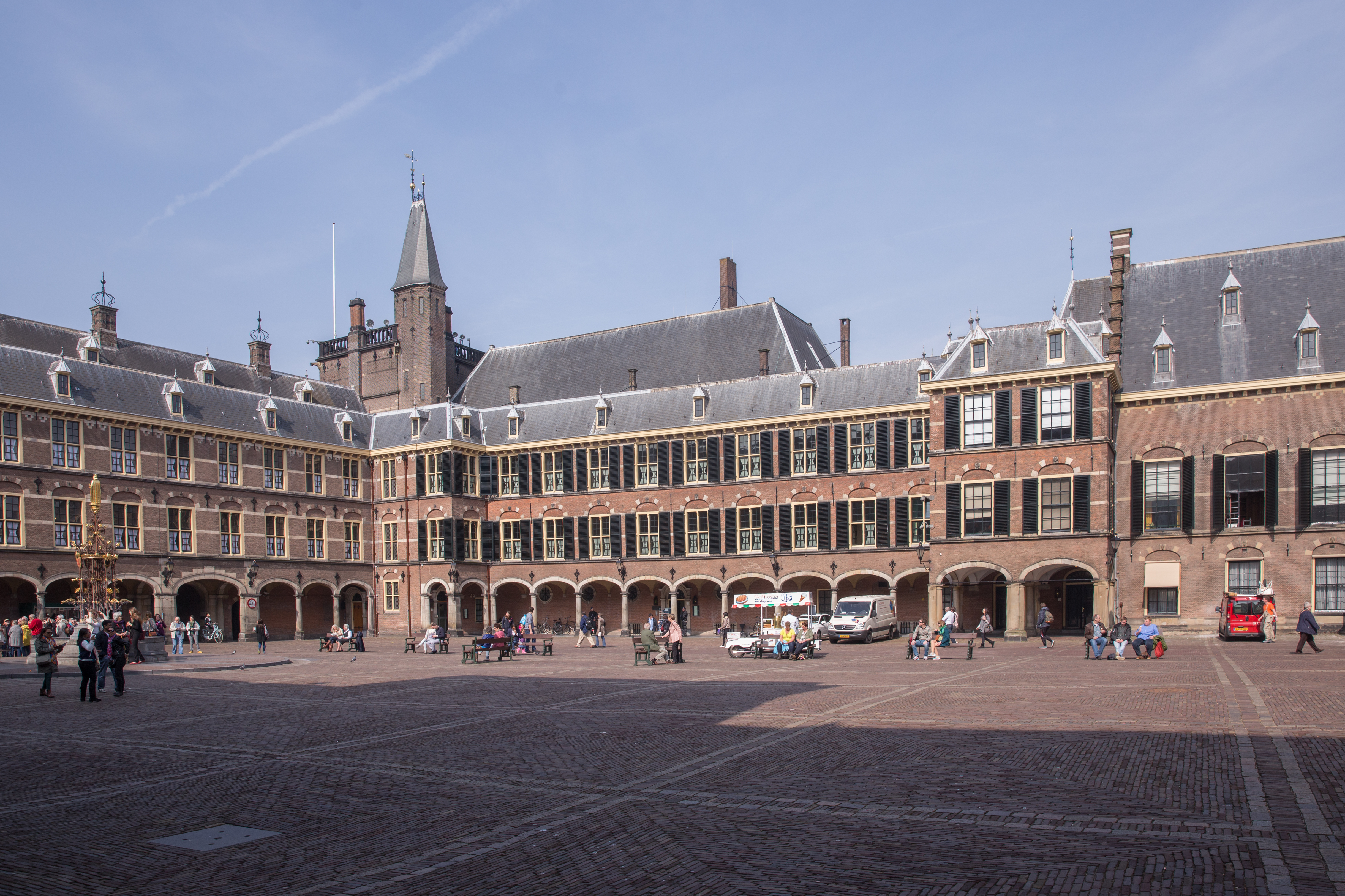 Binnenhof, The Hague